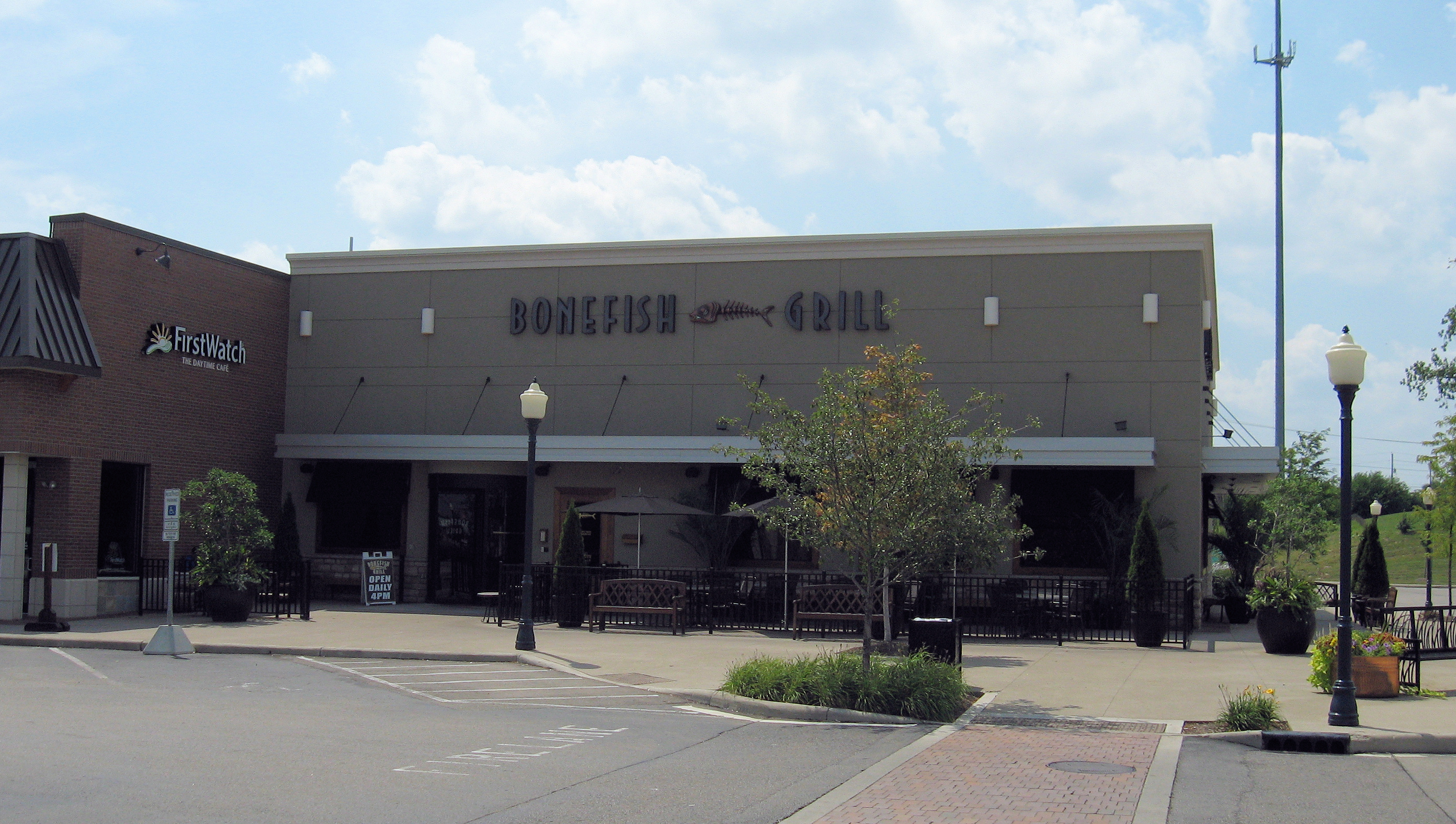 Bonefish Grill (Miamisburg, Ohio, USA)